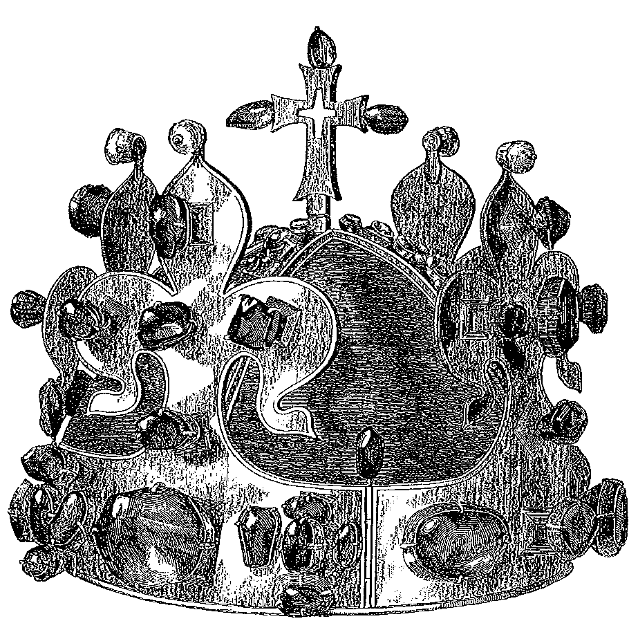 Czech royal crown dedicated to St. Wenceslas